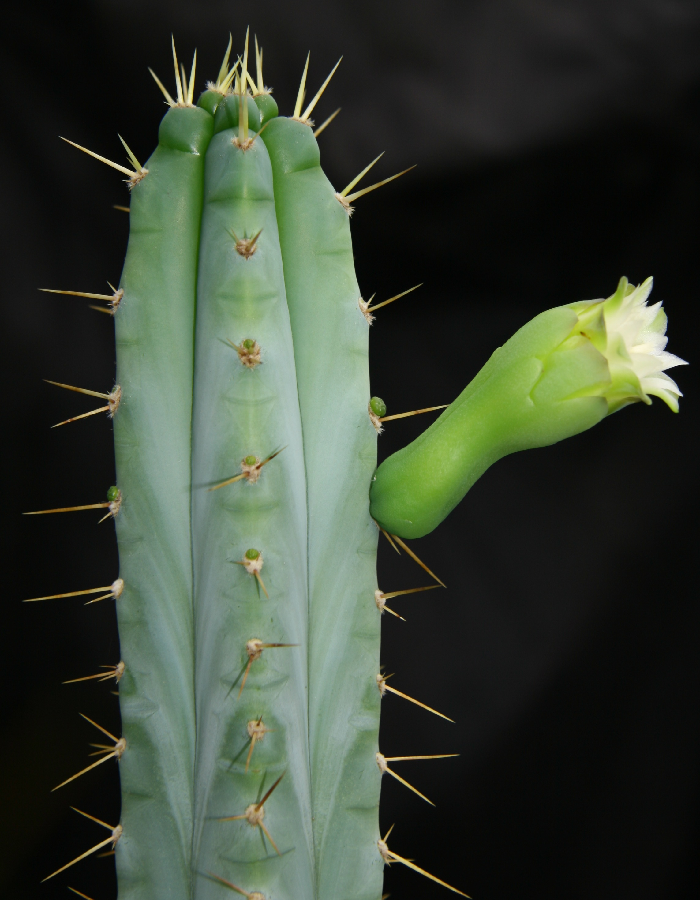 plant from the dunes near airport of Salvador, Bahia, Brasil